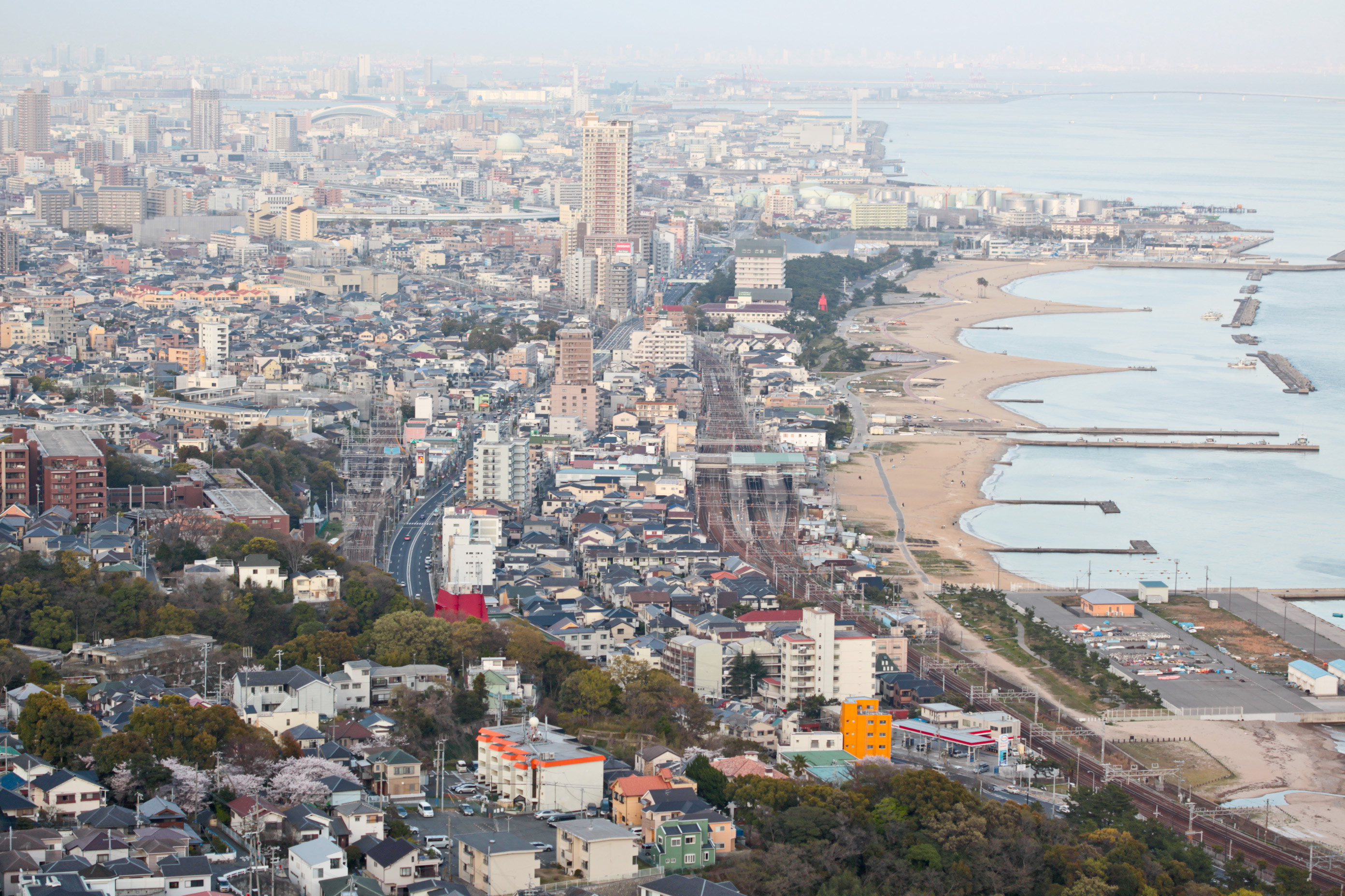 View of Suma-ku, Kobe from Sumaura Ropeway